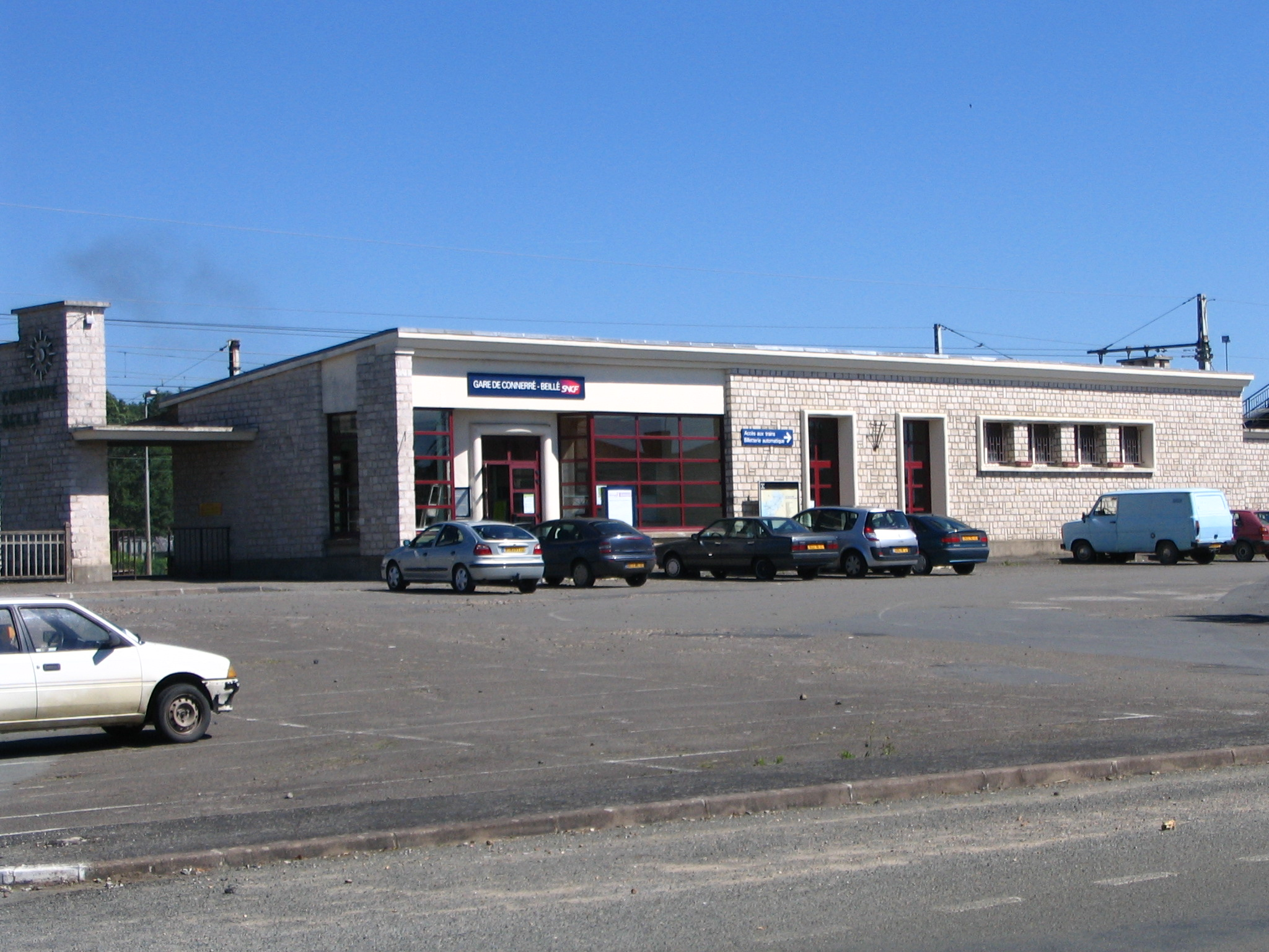 The train station of Connerré-Beillé, Sarthe, France.